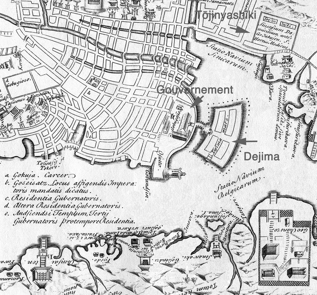 center of Nagasaki at the end of the 17th century showing Dejima, the Chinese Quarter (Tōjinyashiki) and the office of the Nagasaki governor (Engelbert Kaempfer: History of Japan. 1727)